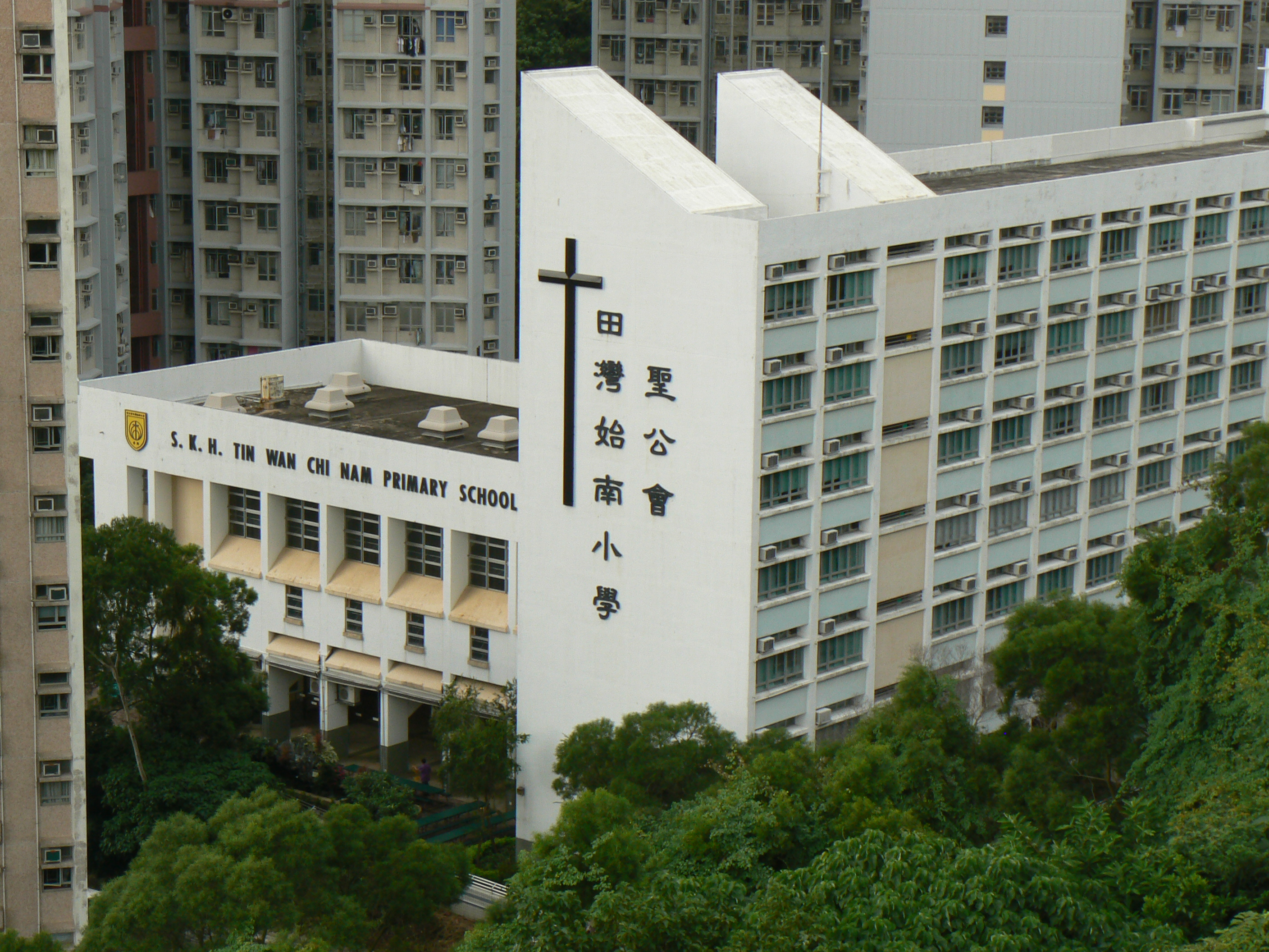 SKH Tin Wan Primary School is situated just next to Hung Fuk Court